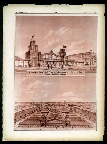 Garay tér - Budapest - Hungary - Europe